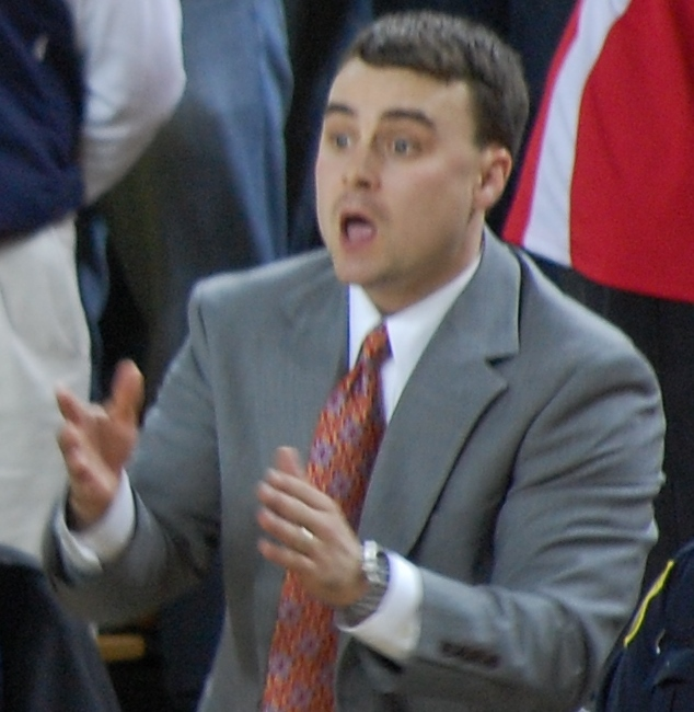 Archie Miller, assistant coach at Ohio State